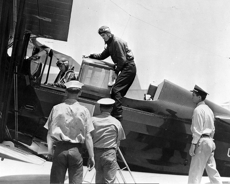 U.S. Navy Rear Admiral Ernest J. King, USN ,arrives on board the aircraft carrier USS Lexington (CV-2) in his new Curtiss SOC-1 Seagull aircraft (BuNo 9990), 2 June 1936.